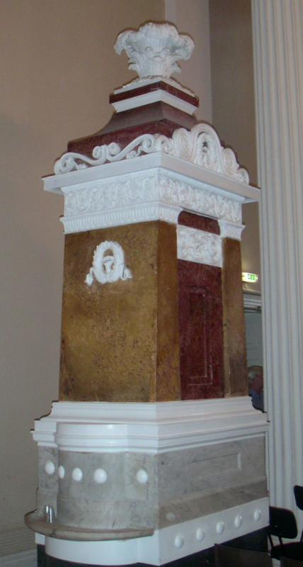 19th century pump, made of marble and scagliola, dispensing spa waters in Pittville Pump Room in Pittville, North Cheltenham, Gloucestershire.